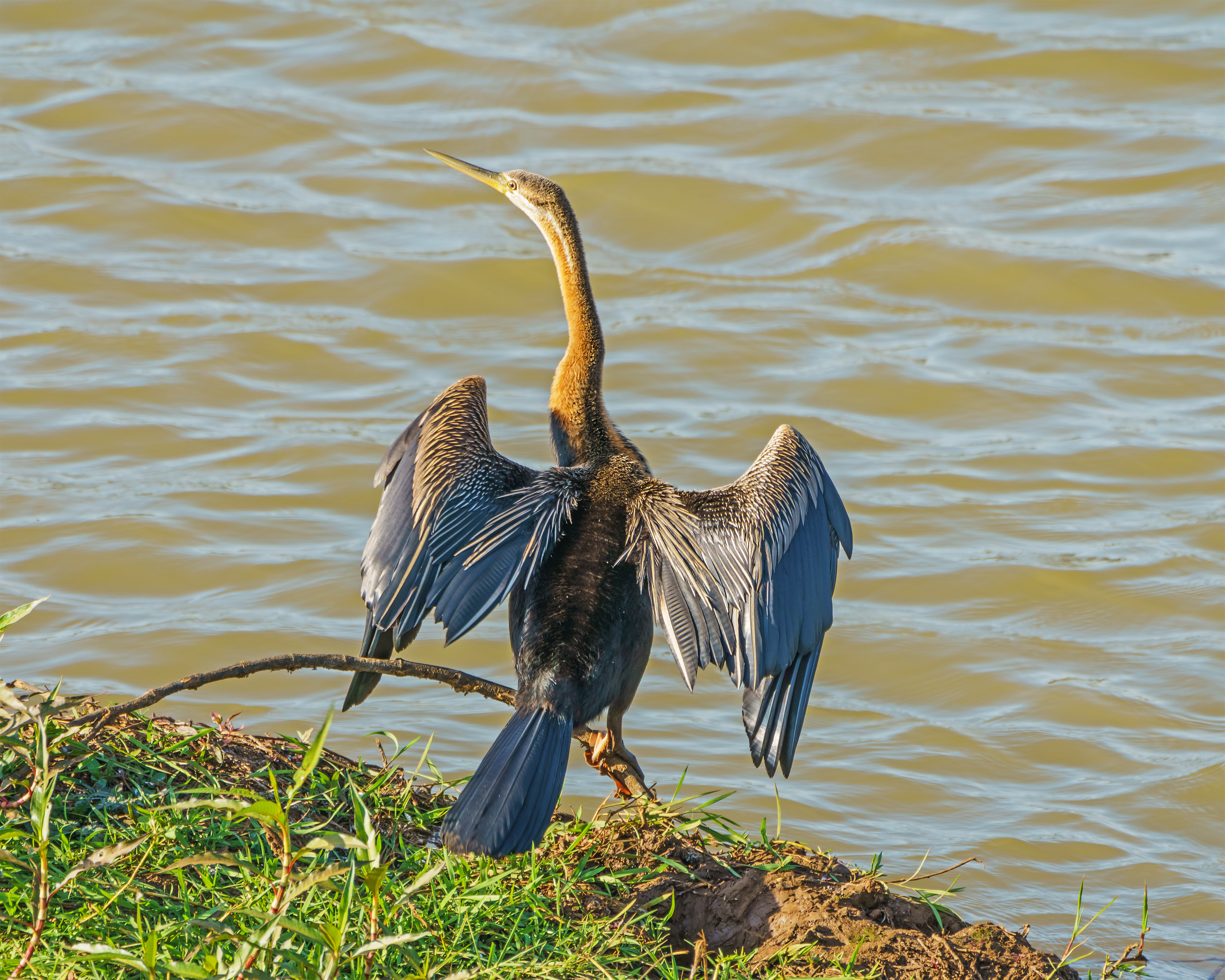 African darter (Anhinga rufa) at Blue Nile River in Bahir Dar, Ethiopia